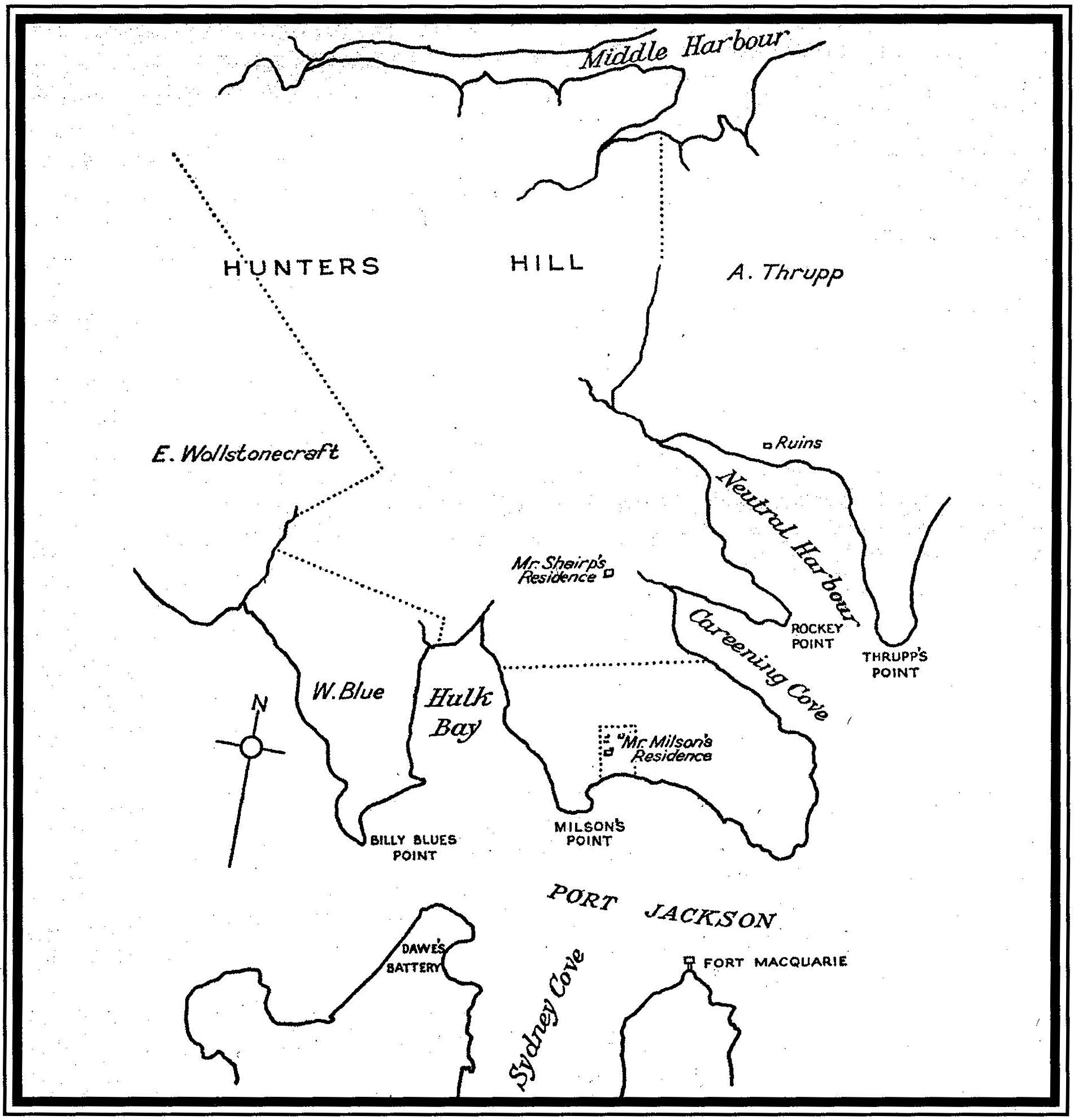 A sketch map first published in 1955 in the book "The Life and Times of James Milson" shows the approximate extent of "Mr Milson's Residence", orchard and dairy in the 1820s in the location of the modern Jeffrey Street, Kirribilli which was leased by Milson from Robert Campbell. It also shows the approximate extent of the full 120 acres (48ha) owned by Robert Campbell which was leased by Milson in the 1820s. By the 1840s Milson no longer leased the majority of Campbell's 120 acres (48ha), but continued to lease the orchard and dairy. Also shown is the approximate boundary with the adjoining 50 acres (20ha) granted to Milson in 1825, and on which he built his residence in 1831. This sketch map is not an early map, and not from the 1820s, which is demonstrated by the spelling of the surname as "Milson" when early maps and documents spell the surname as "Milsom".